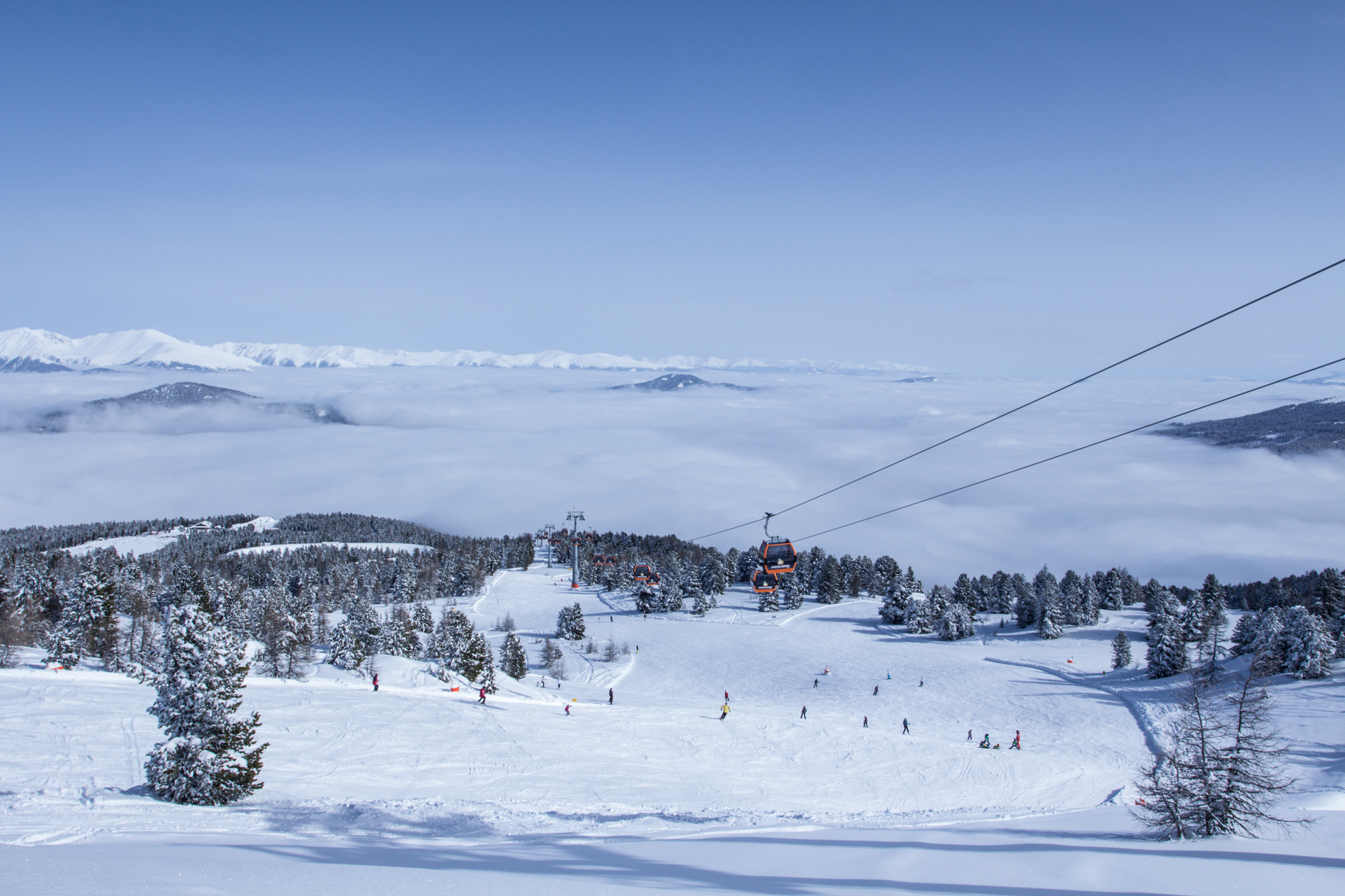 Niedere Tauern, view from the top station of the 10-seater gondola lift.